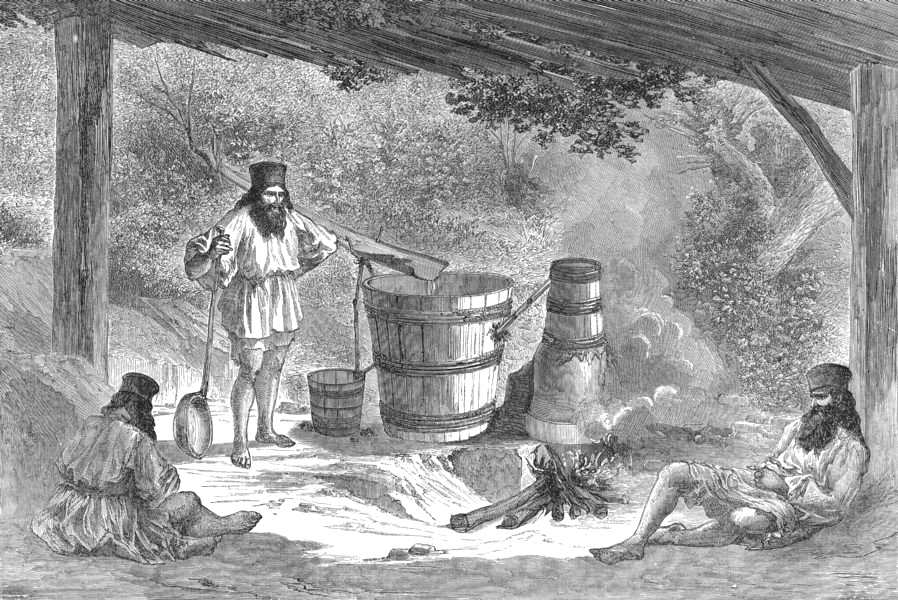 Caption below picture: 'Wallachians distilling "Slievovitz"'